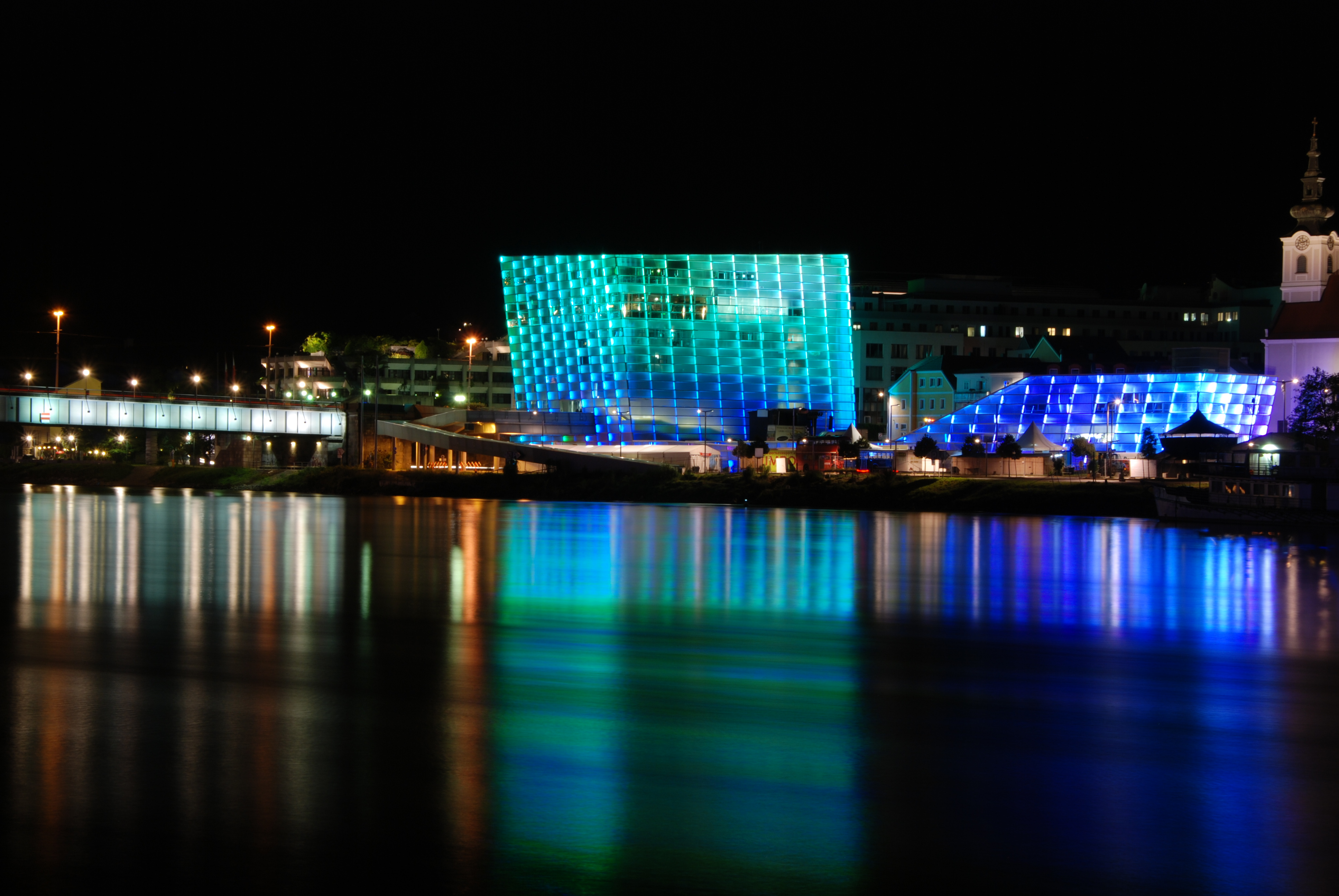 Ars Electronica Center at night in August 2011.